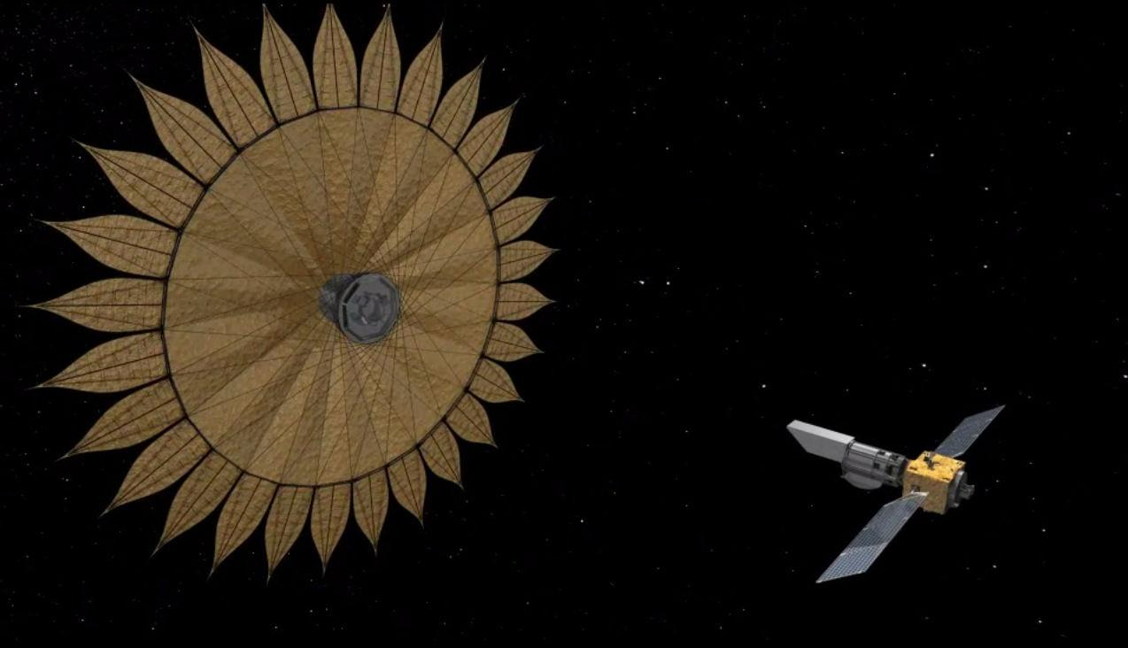 Starshade Artist's Concept 1 This artist's rendering shows the proposed starshade flying in sync with a space telescope. The giant sunflower-like structure would be used to acquire images of Earth-like rocky planets around nearby stars. The proposed starshade could launch together with a telescope. Once in space, it would separate from the rocket and telescope, unfurl its petals, then move into position to block the light of stars.